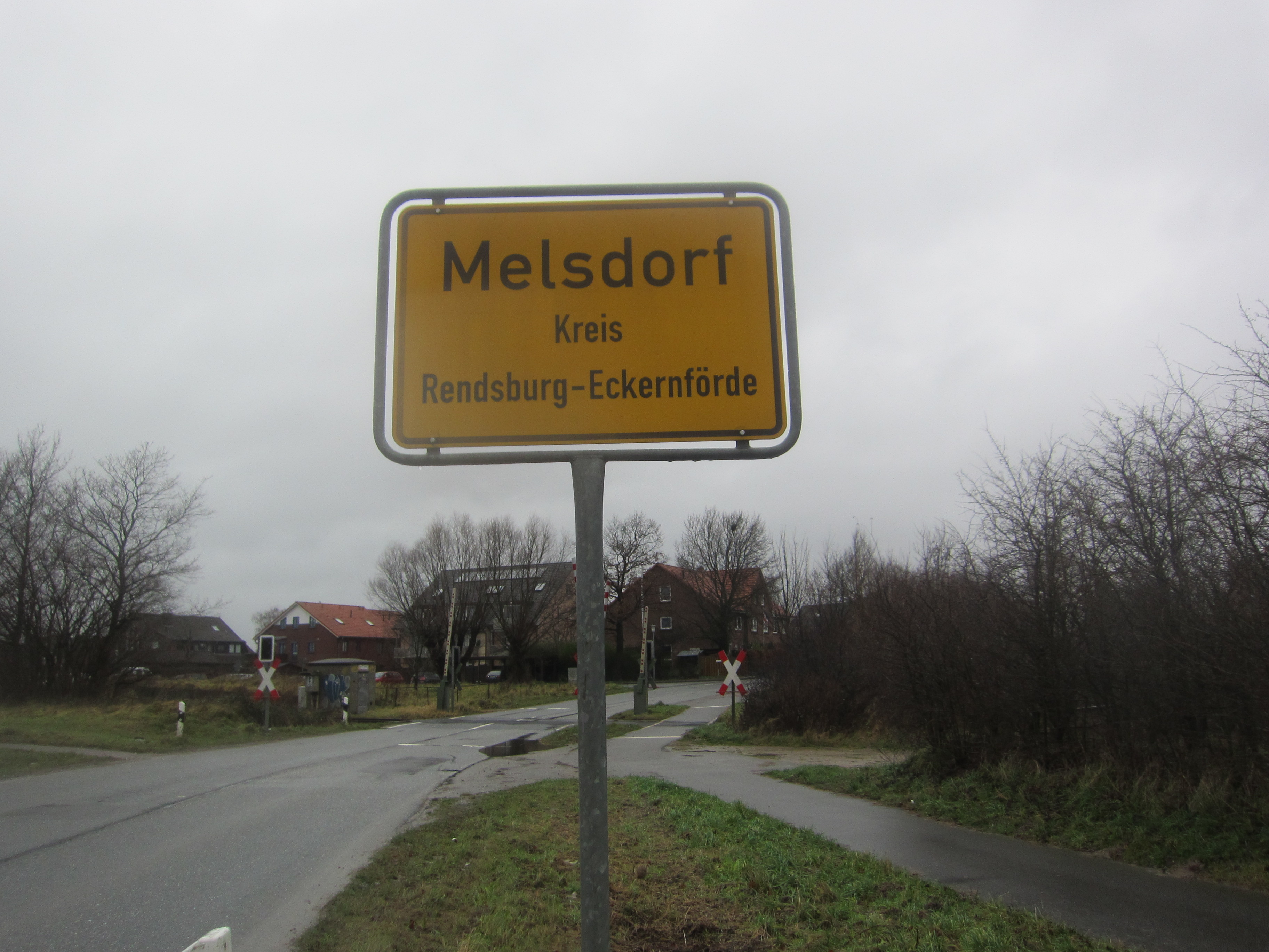 City limit sign "Melsdorf"